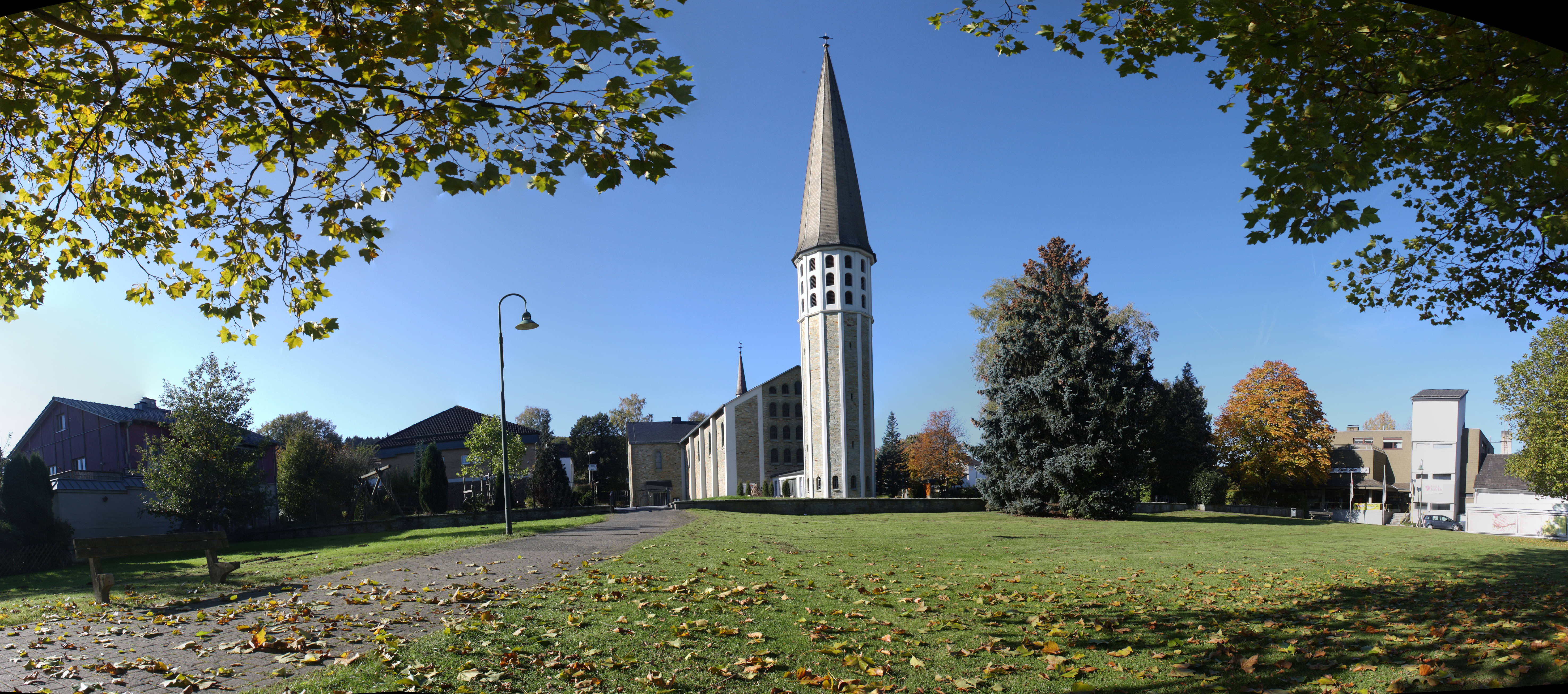 Holy cross church Beclecke during fall